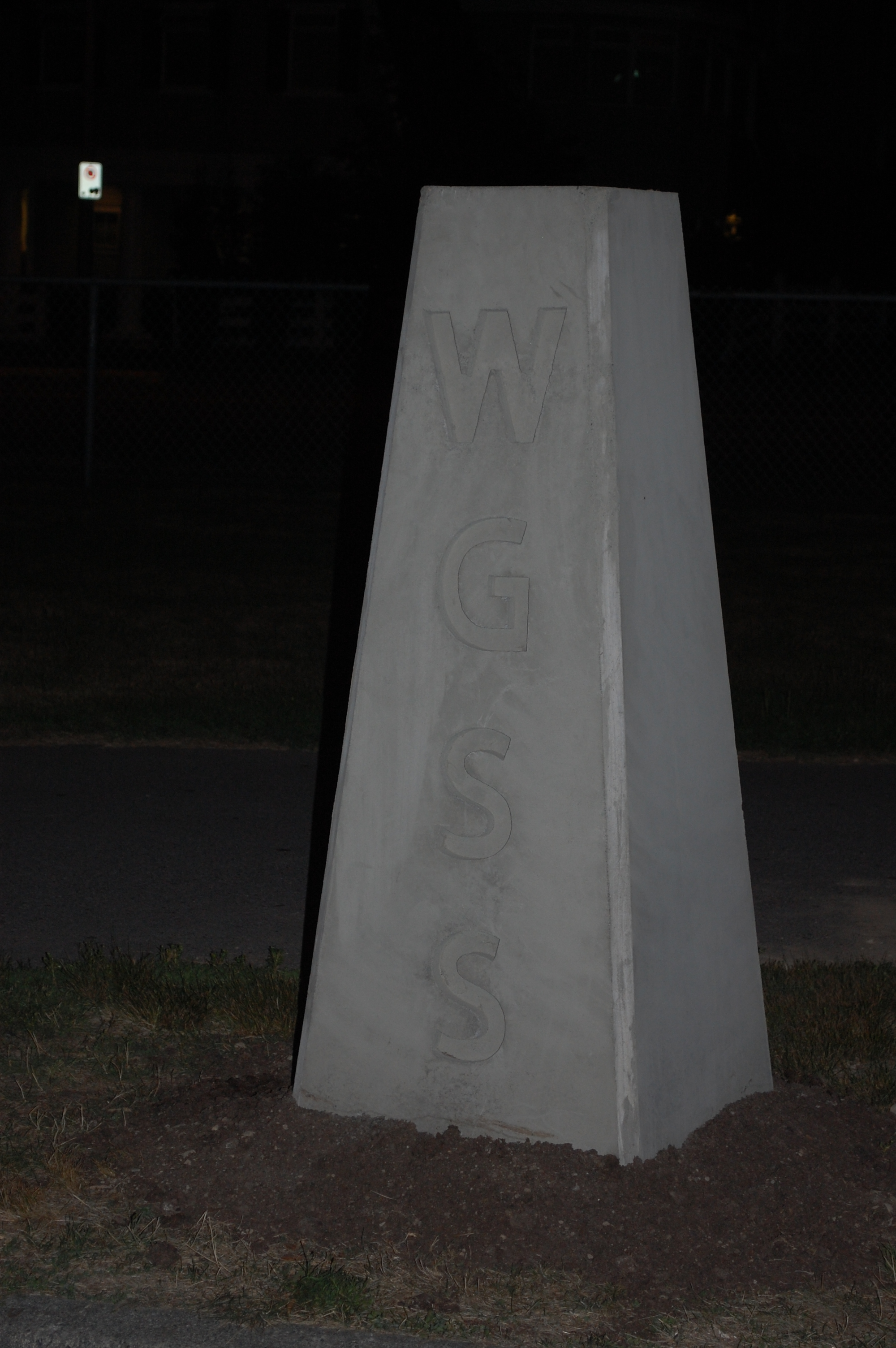 Photo of cement cairn installed by Walnut Grove Secondary School students.